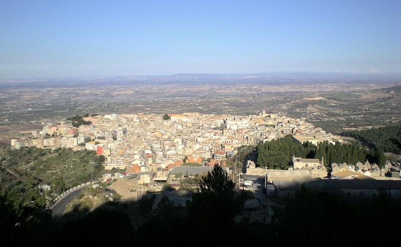 View over Chiaramonte Gulfi, Sicily, town and comune in the province of Ragusa with 8.035 inhabitants.